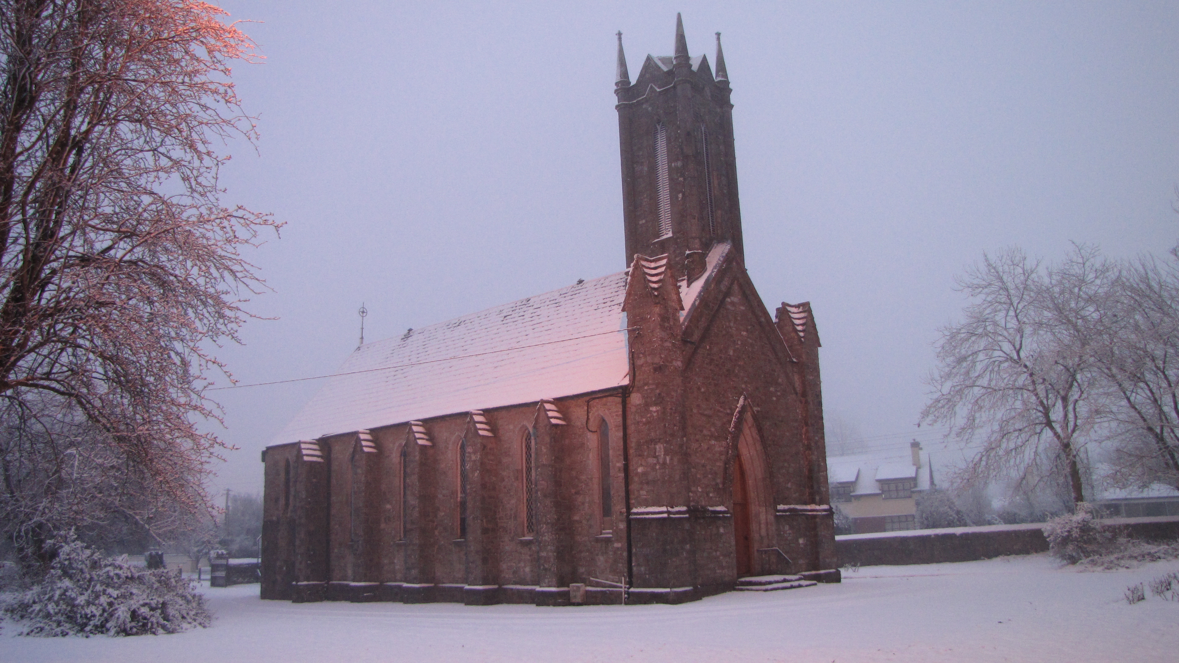 Saint Patrick's Church of Ireland at Moorefield Cross, Newbridge, County Kildare. Taken during the big freeze of January 2010.